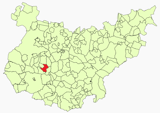 La Parra